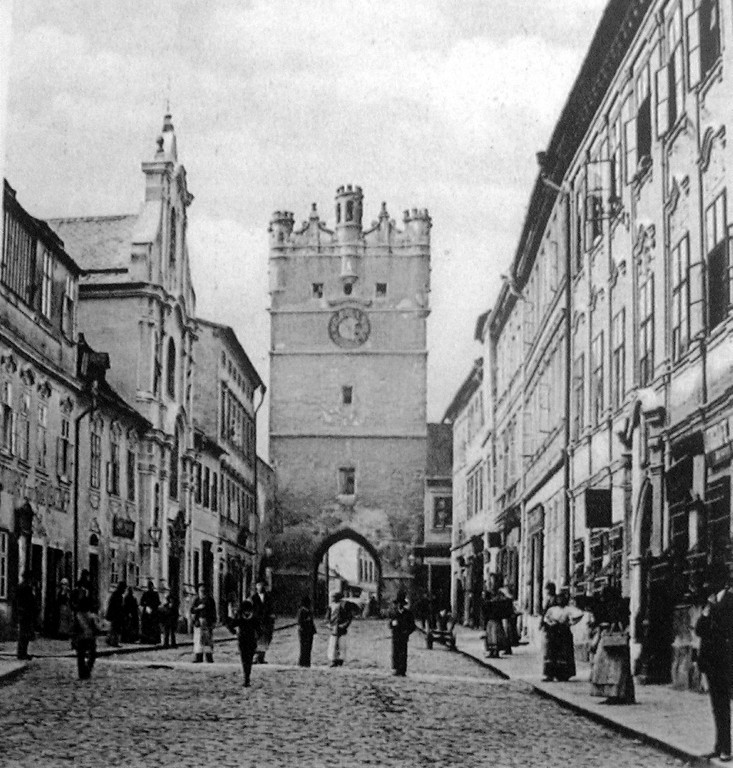 Holy Mother Gate in Jihlava, Czech Republic